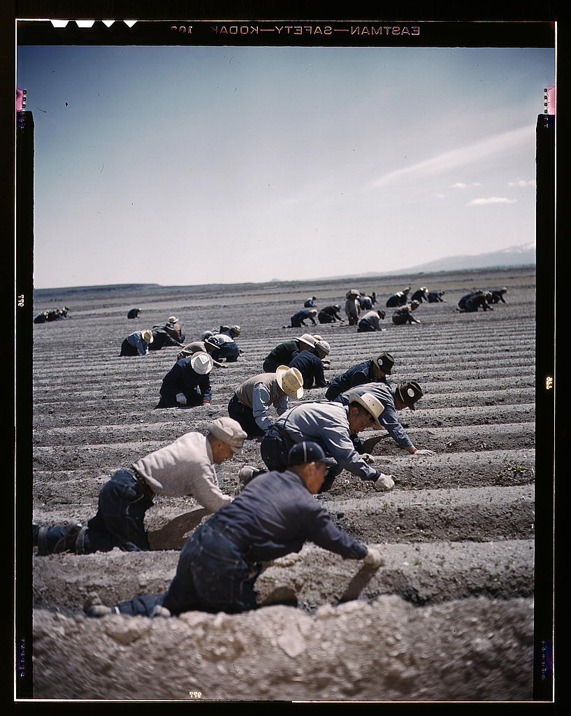 Japanese-Americans transplanting celery at the Tule Lake Relocation Center during the Second World War.